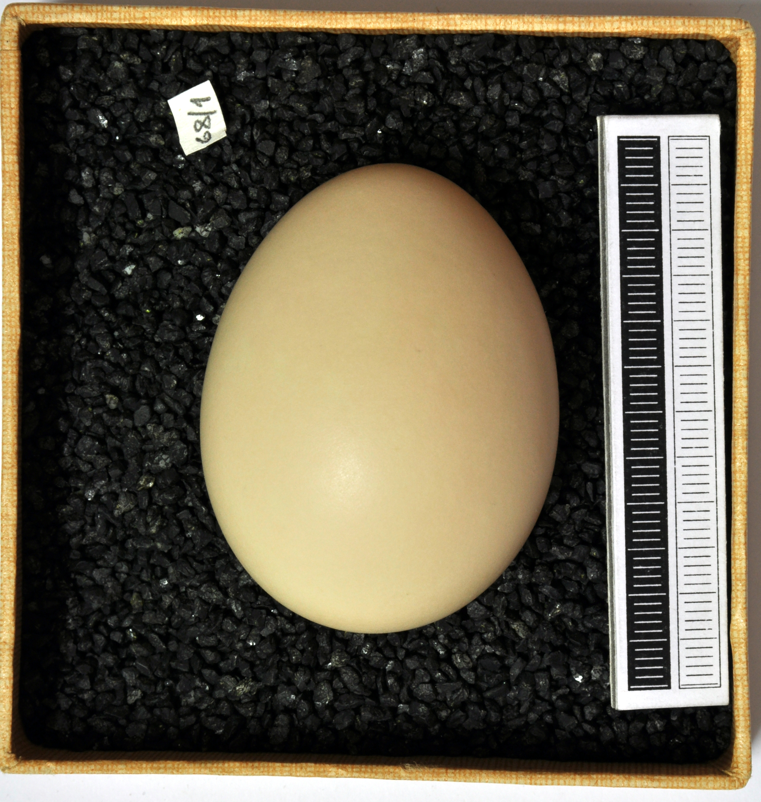 Ferruginous duck Aythya nyroca, egg, Coll. Museum Wiesbaden, leg. W. Abelmann